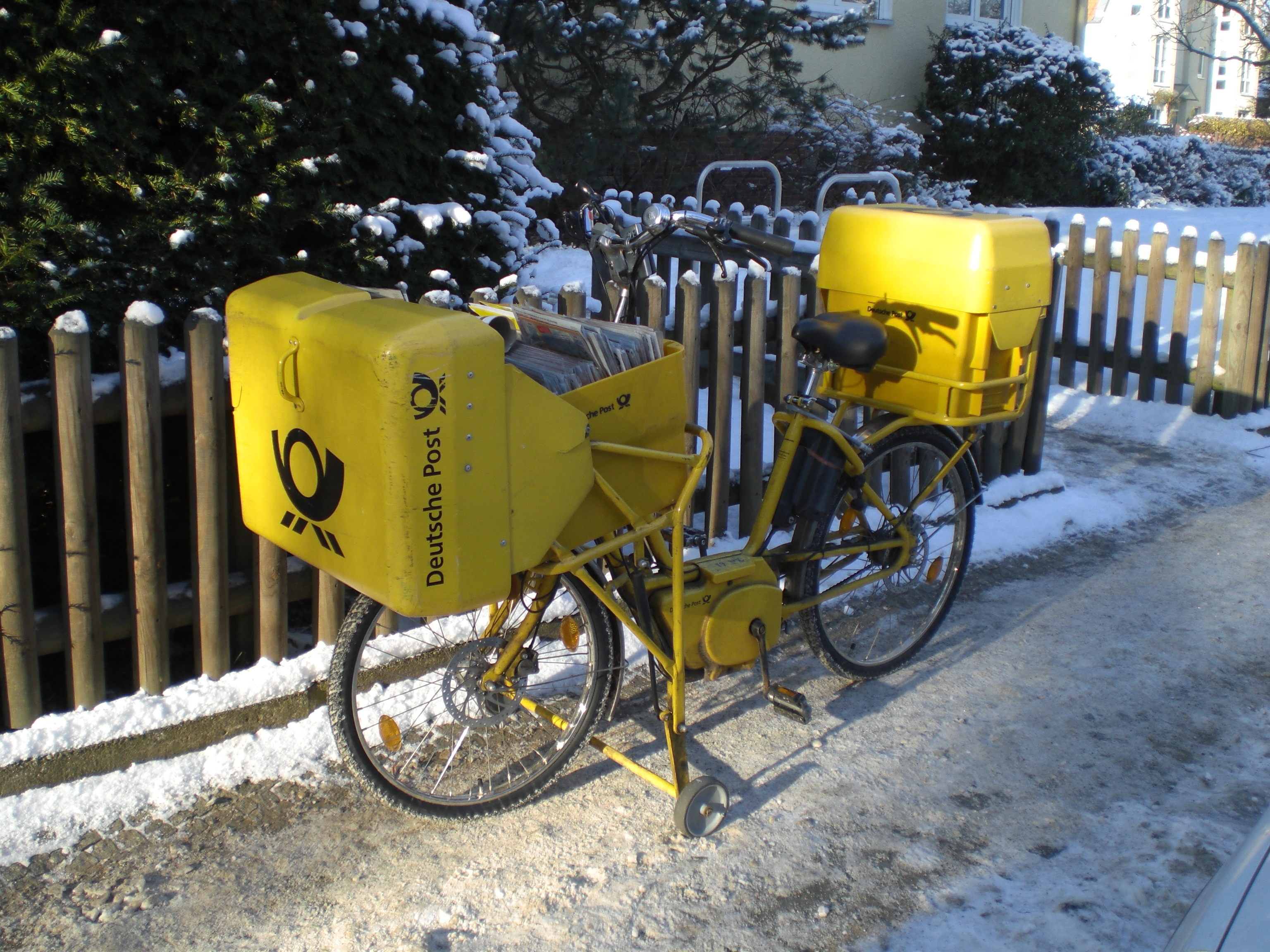 delivery bike of Deutsche Post